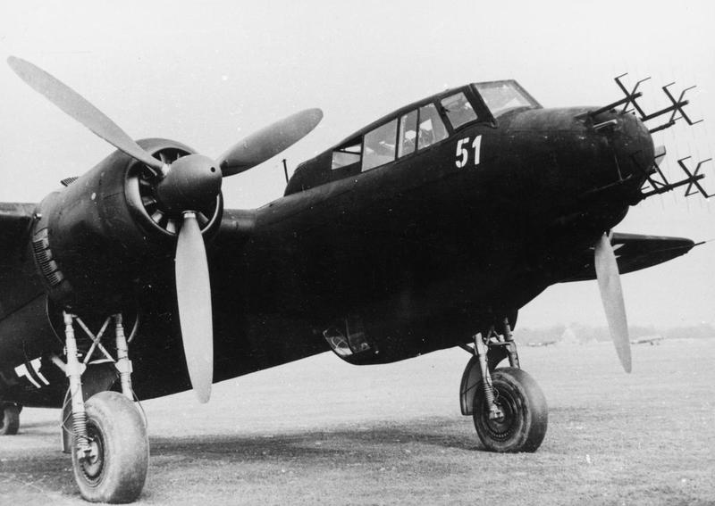 The German Air Force in the Second World War Dornier Do 217J-1 night fighter prototype fitted with FuG 202 AI radar